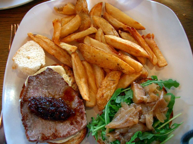 Wagyu beef steak sandwich, served open-face, with garlic aioli and accompanied by chips (fries)